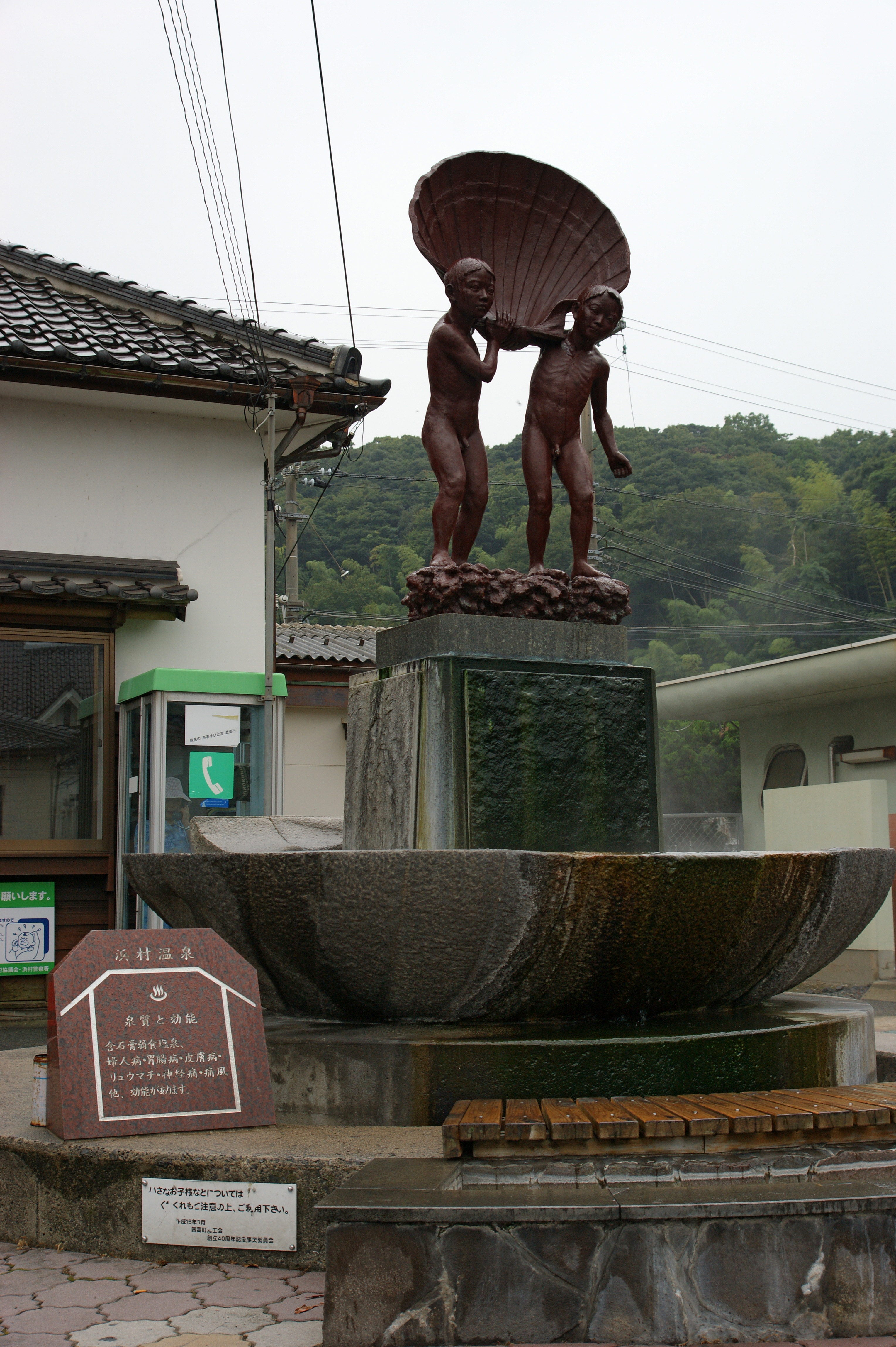 Hamamura Onsen, Tottori, Tottori prefecture, Japan